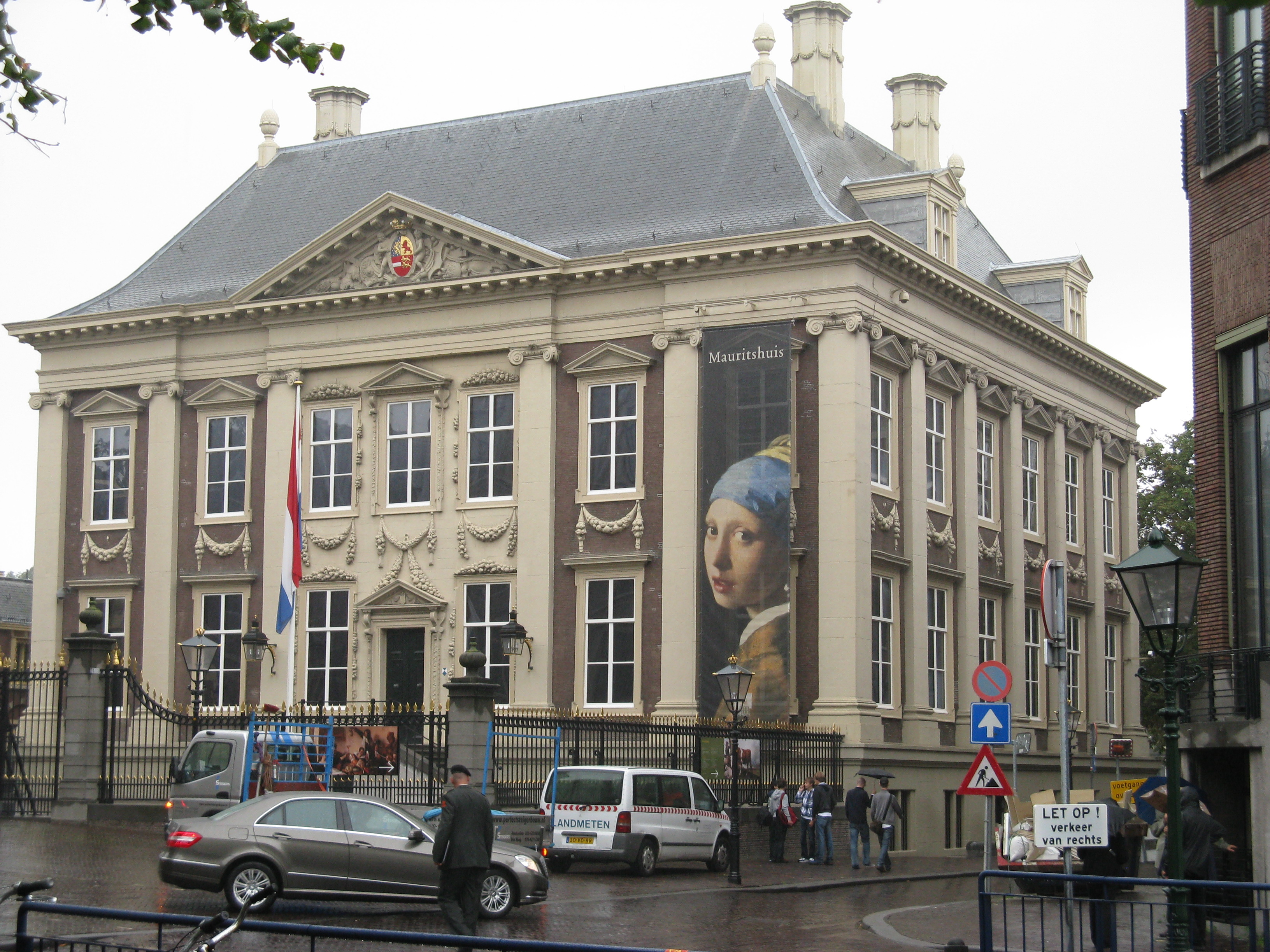 Mauritshuis Museum, Girl with a Pearl Earring by Johannes Vermeer